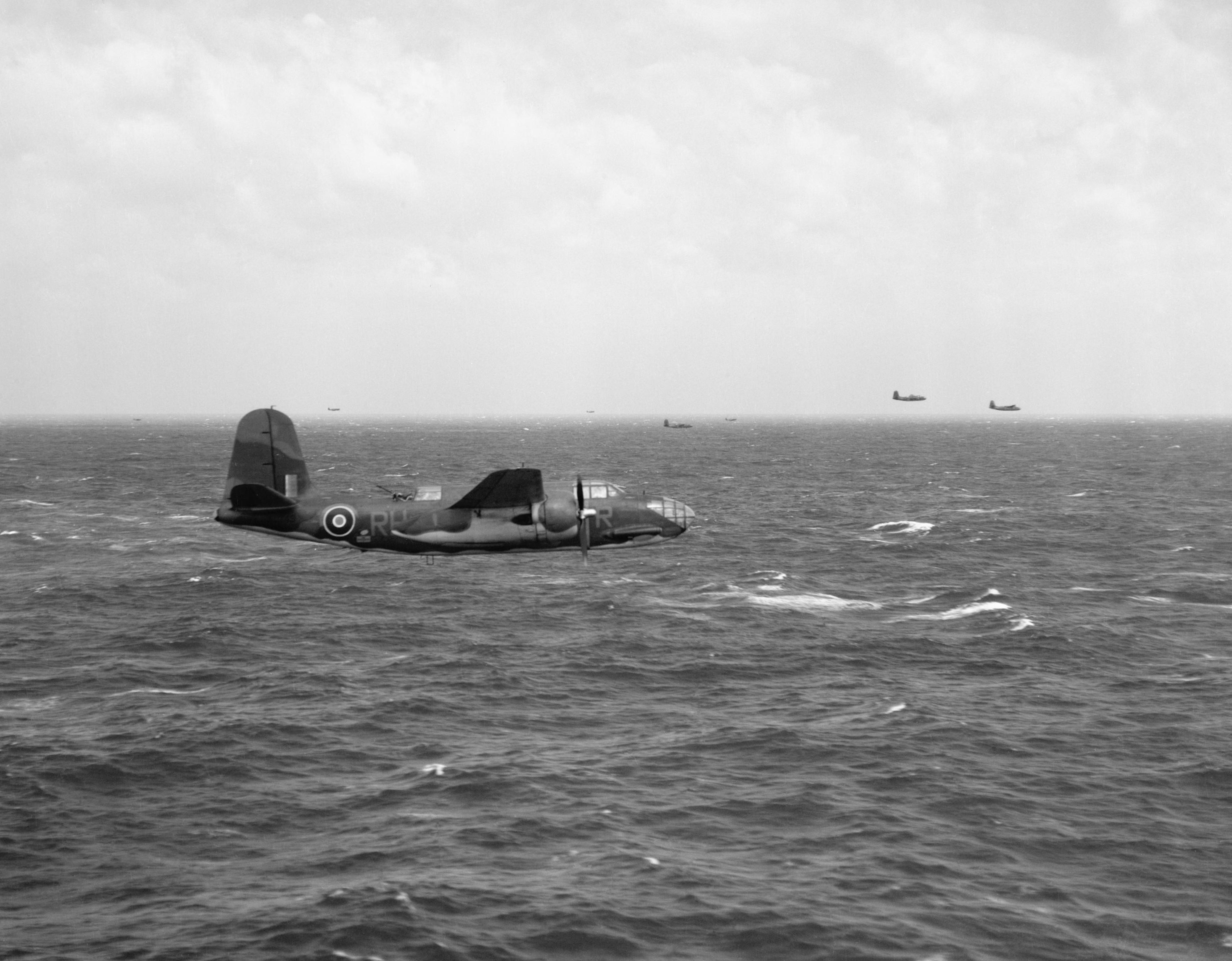 Douglas Boston Mark IIIs of No. 88 Squadron RAF based at Oulton, Norfolk (UK), flying at low level over the North Sea, in order to avoid detection by enemy radar, while on a daylight bombing sortie. Beyond the four Bostons in view, are three escorting North American Mustang Mark Is.